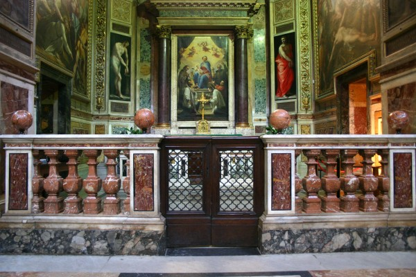 Chapel of the Passion, in the Church of Gesù, at Rome